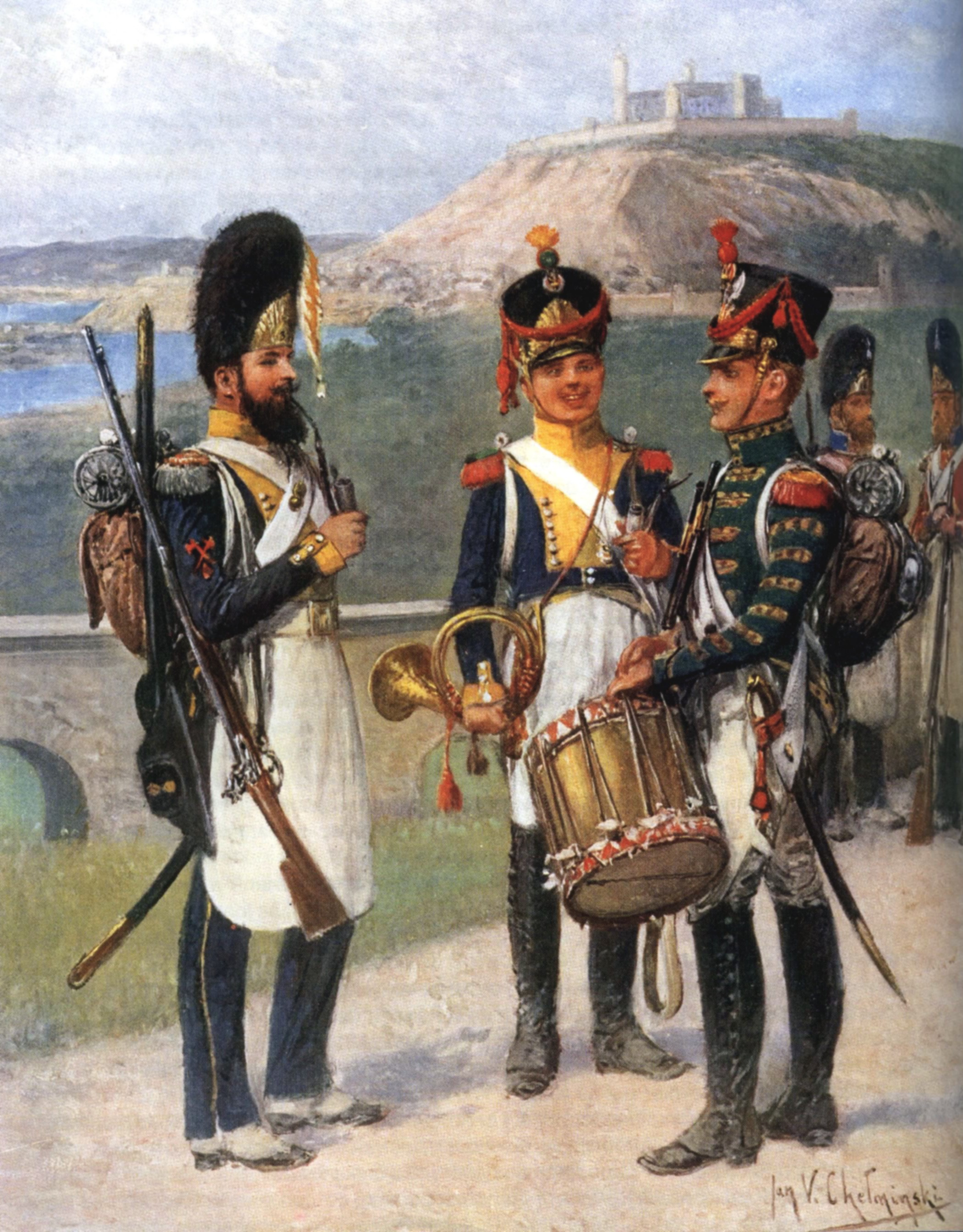 Legion of the Vistula and 4th Infantry Regiment of Duchy of Warsaw